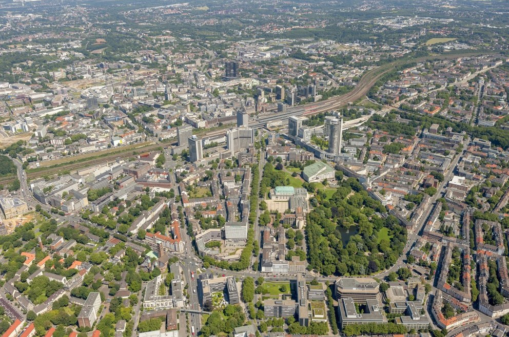 Luftaufnahme Essen Innenstadt - Südviertel